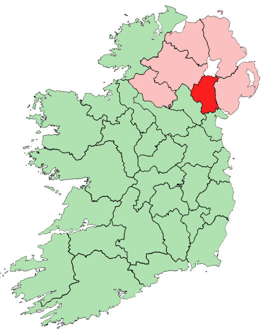 Location of County Armagh on island of Ireland